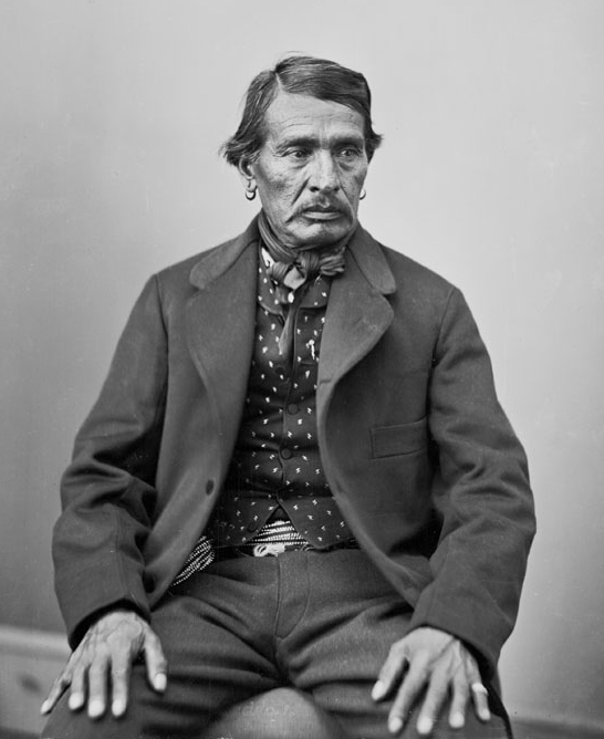 George Washington (Sho-e-tat, Little Boy), a Caddo born in Louisiana in 1816; half-length, full-face. Photographed by Alexander Gardner, 1872.